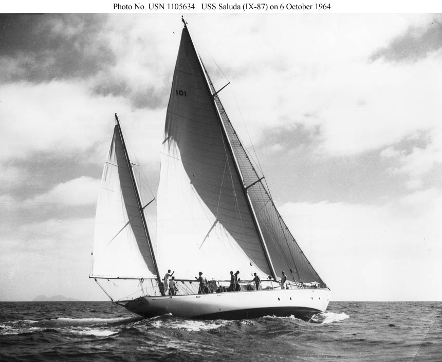 Saluda (IX-87) underway, 6 October 1964. She was used for ocean research by the Naval Electronics Laboratory but also participated in sailing races off the California coast.